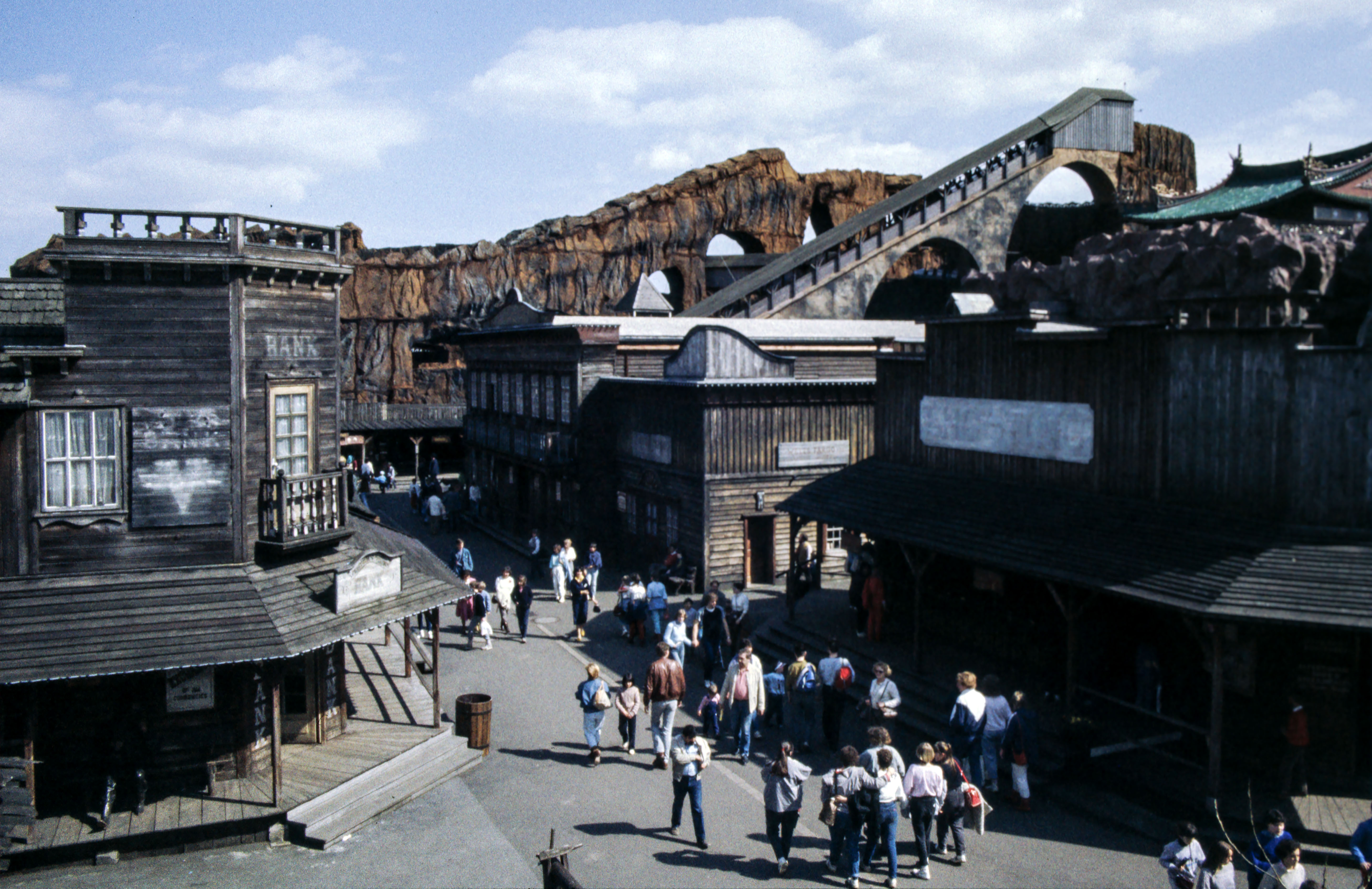 Phantasialand Silver City with Gebirgsbahn